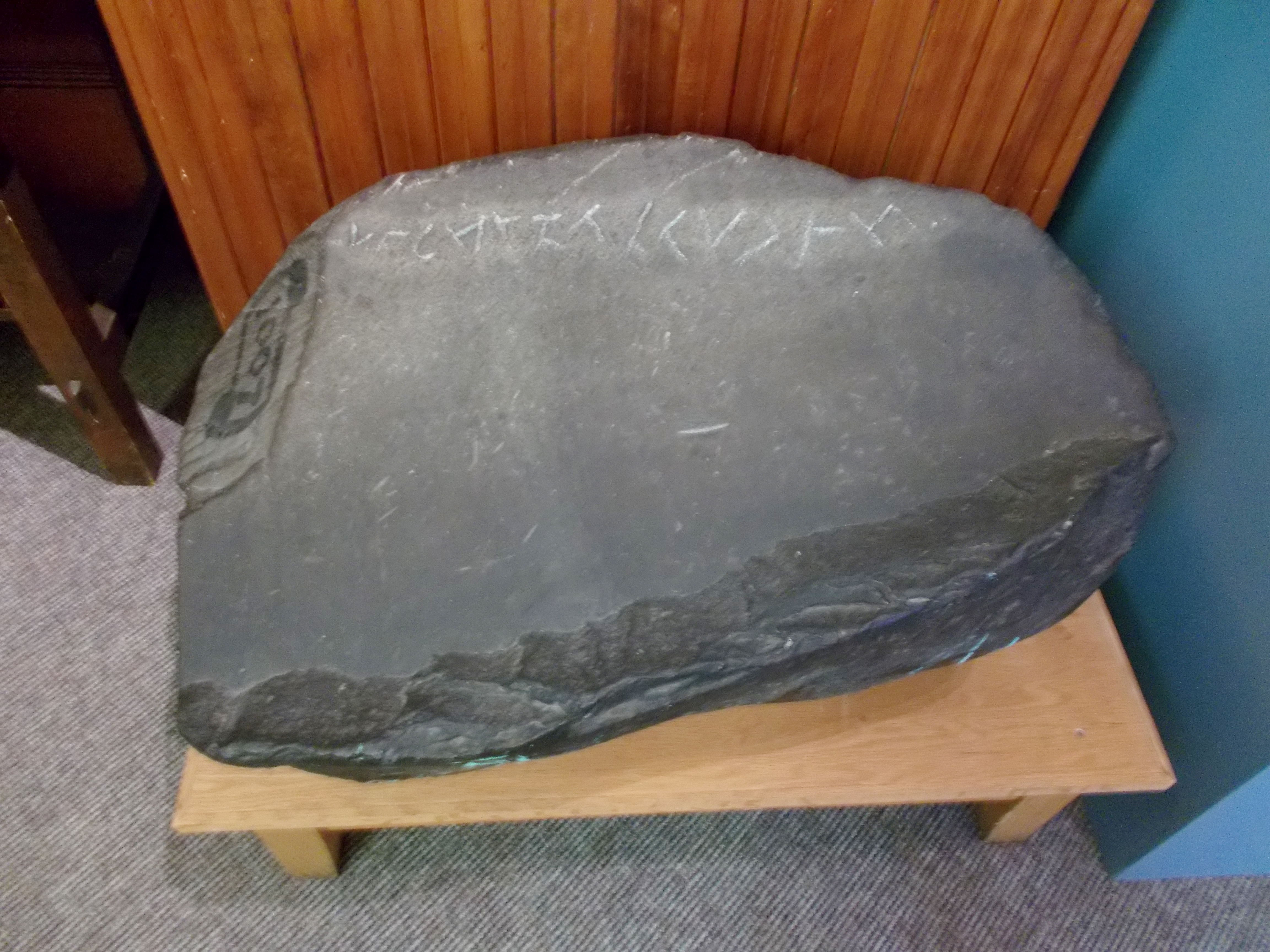 This photo shows the full face of the supposed Yarmouth Runic Stone, with the inscription towards the top.